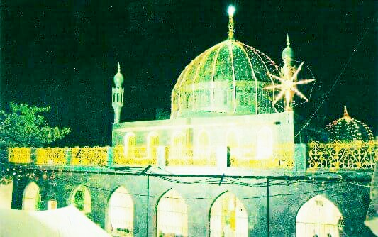 Syed Shah Afzal Biabani Rahmatullah Alihi